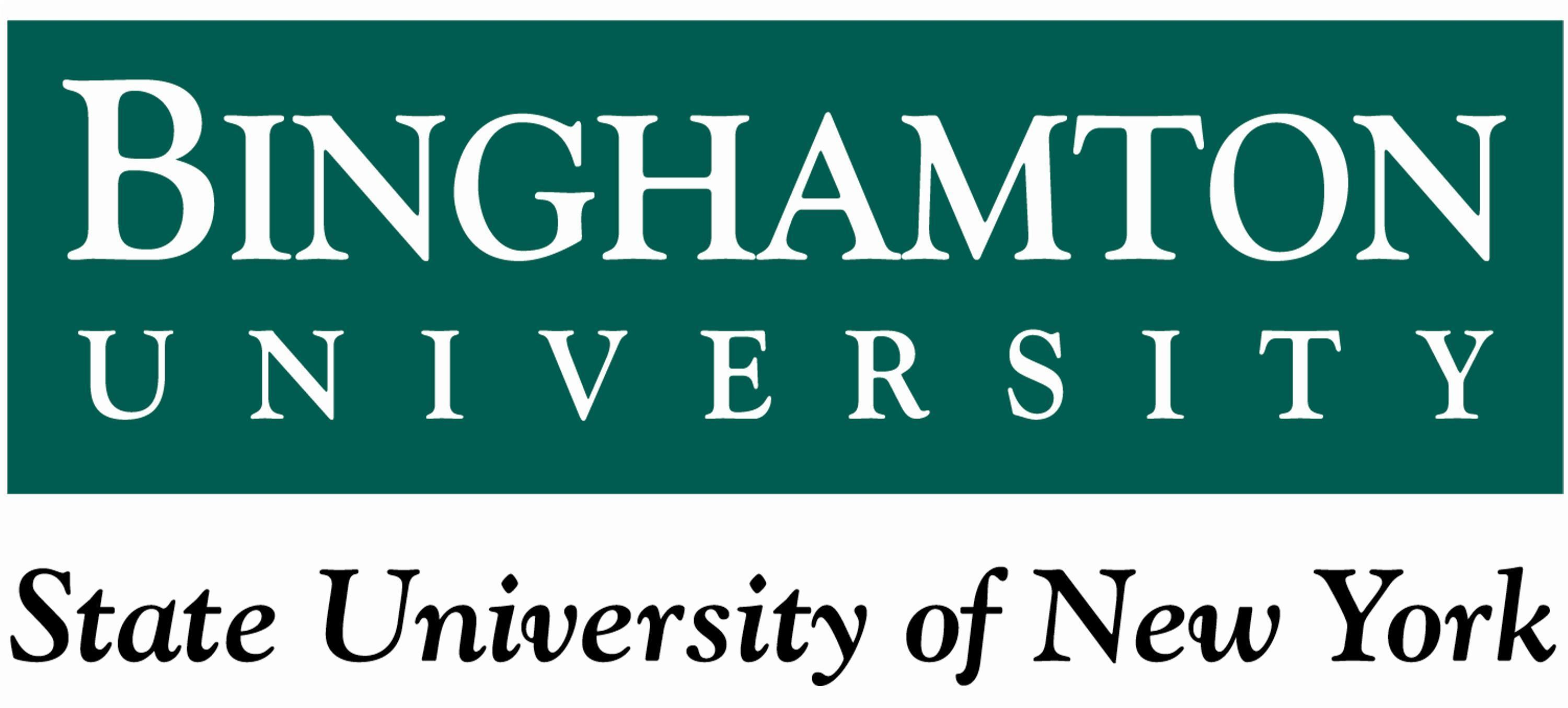 OBSOLETE Binghamton University State University of New York logo